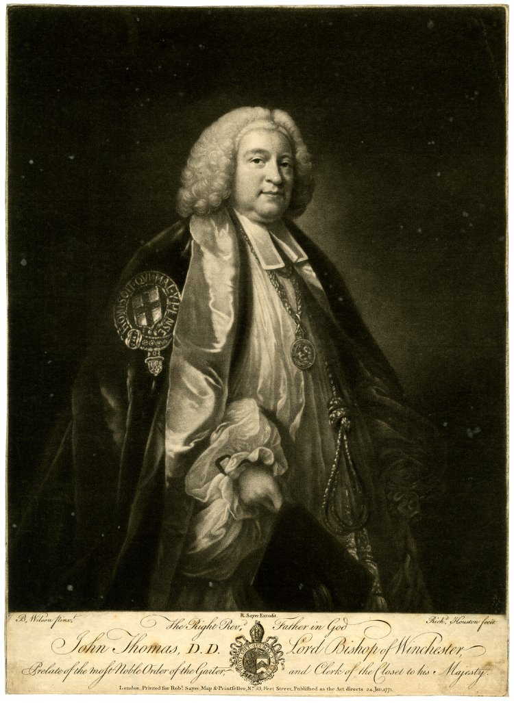 Portrait of John Thomas (1696–1781), English bishop of Winchester.